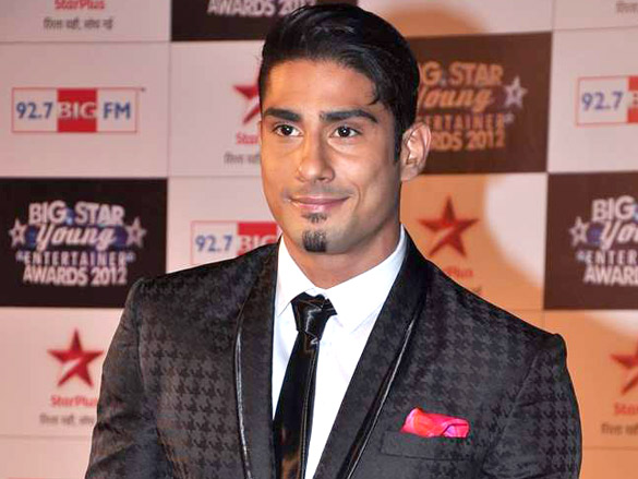 Prateik babbar big star award